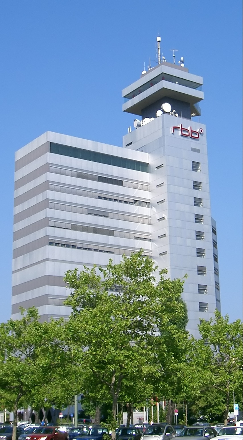 TV center Berlin of Rundfunk Berlin-Brandenburg at Theodor-Heuss-Platz.